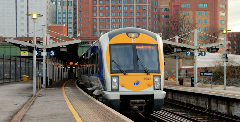 Gt Victoria Street station, Belfast (9). See 1511987. The 10.28 to Londonderry awaiting departure from platform 3. Compare this with the view in 1975 1087085. Continue to 2223198.